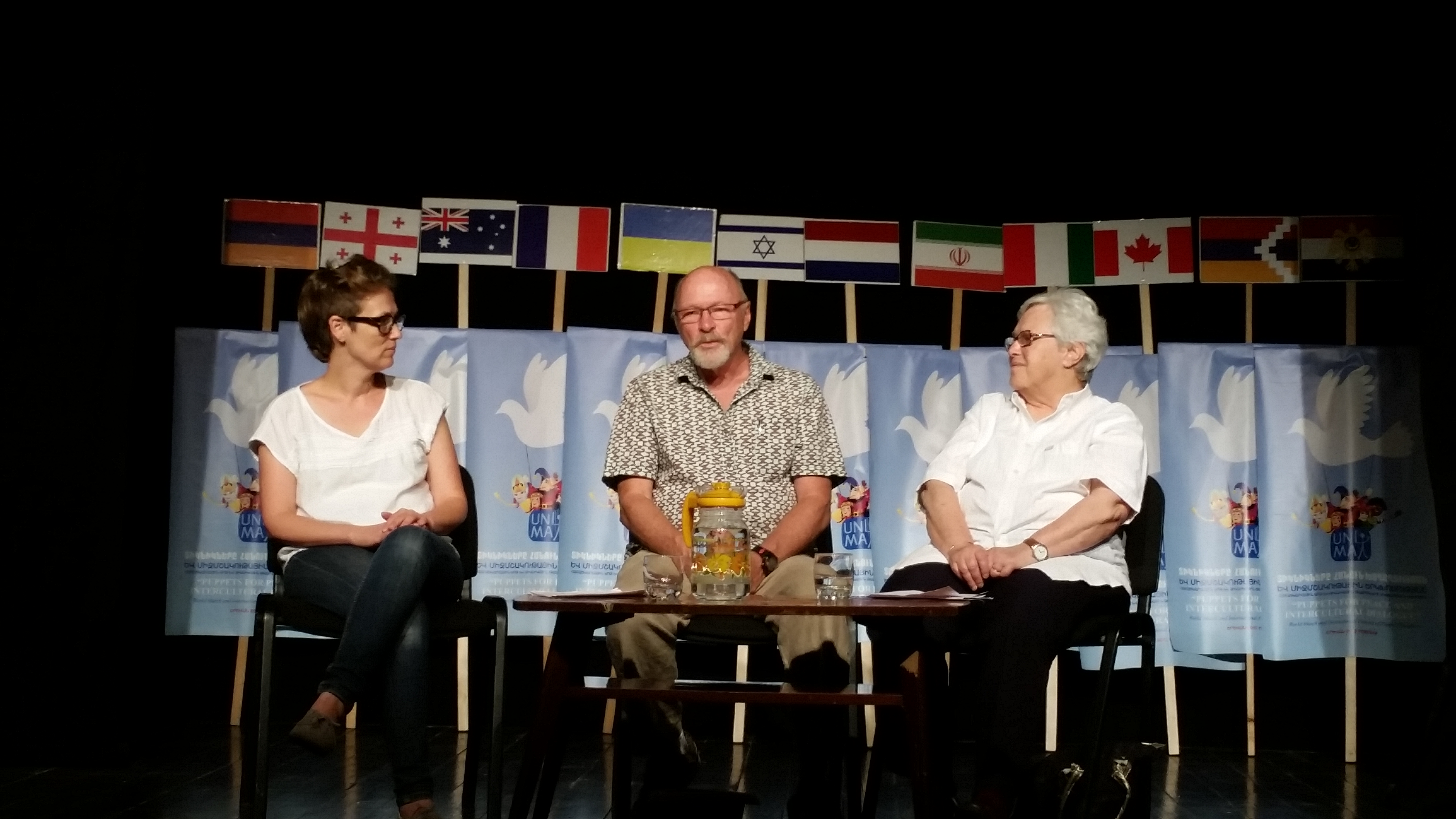 UNIMA Festival ("Puppets for Peace and Intercultural Dialogue") conference in Yerevan, Armenia; Right to Left: Martine Levy (France) - UNESCO; Jacques Trudeau (Canada) - Secretary General of UNIMA Dikla Katz (The Key Theatre, Israel) - newly appointed official Represntative of UNIMA in Israel